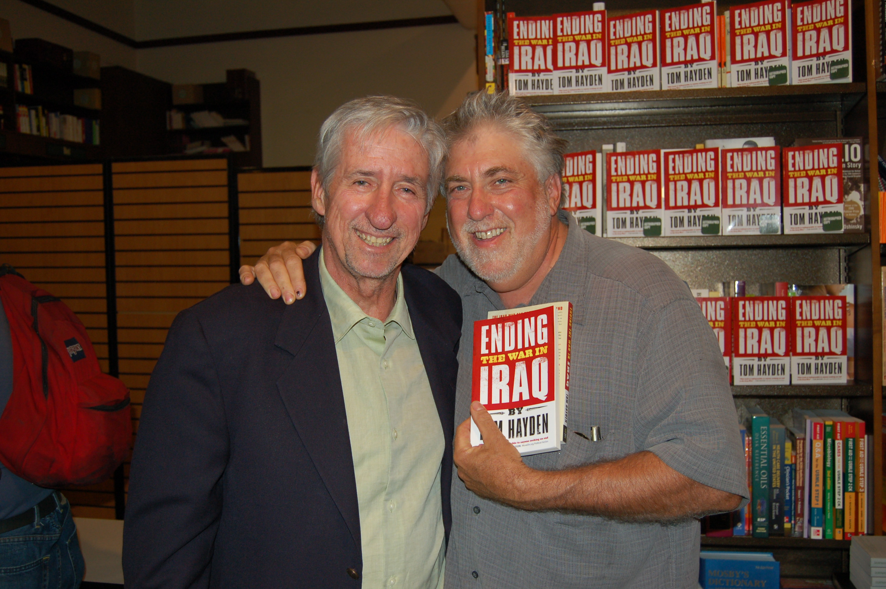 Activist and author Tom Hayden (left) with Mark Rudd. Hayden was promoting his book, "Ending The War In Iraq", and this shot was taken at the Strand bookstore in Manhattan.